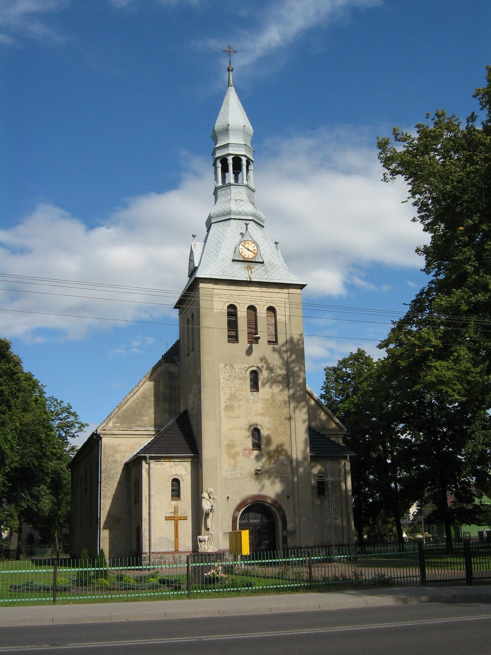 Church of St. Adalbert (Wojciech) in Boruja Kościelna (Poland)